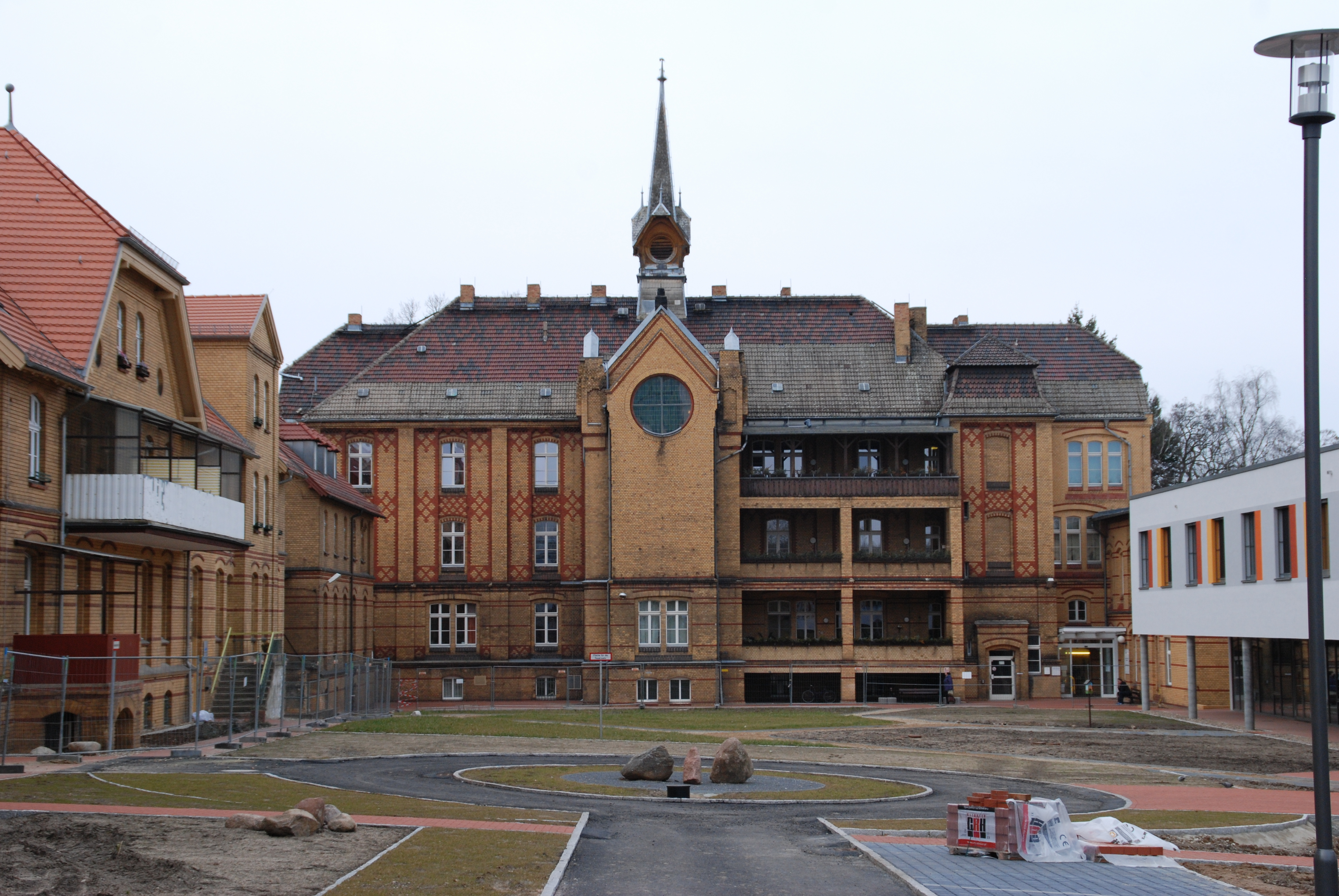 Evangelic Hospital Lutherstift in Frankfurt (Oder), Germany